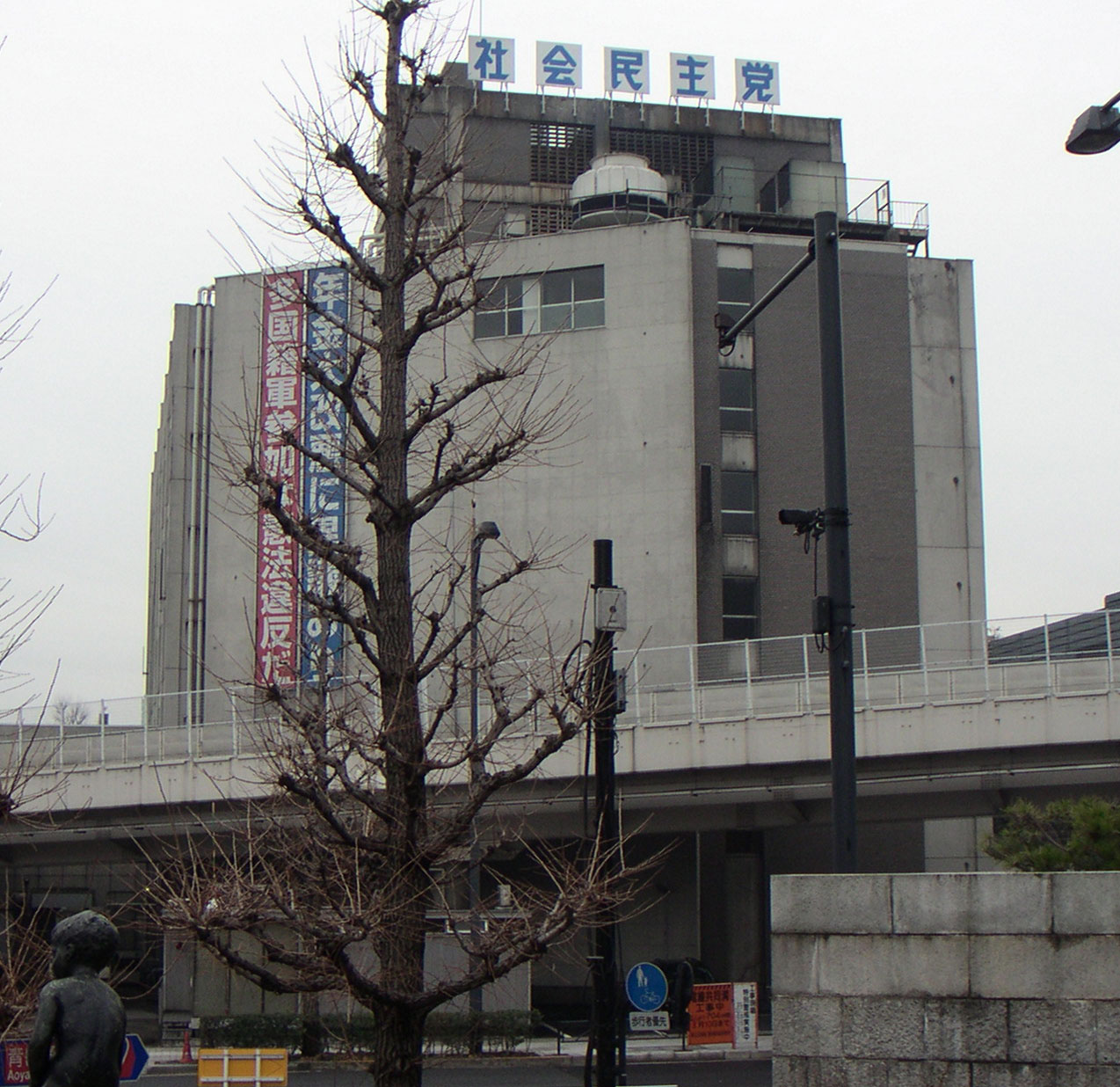 Social Democratic Party of Japan 社会民主党